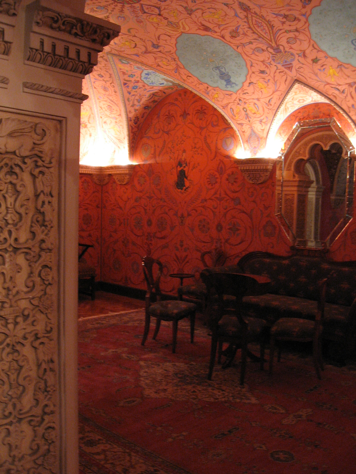 Kraljevski Dvor, Belgrade - Basement